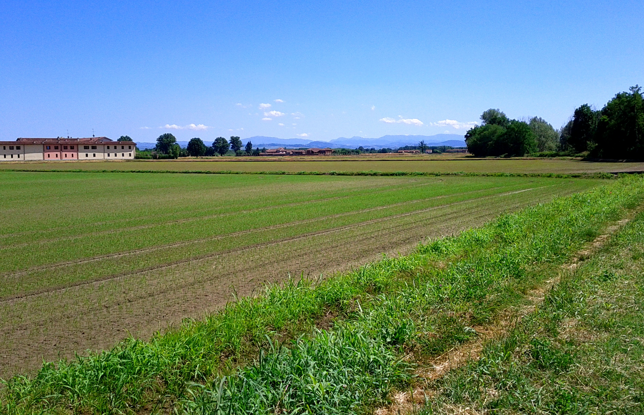 A photo of the countryside in Travacò Siccomario by Luigi Rosa, Flickr